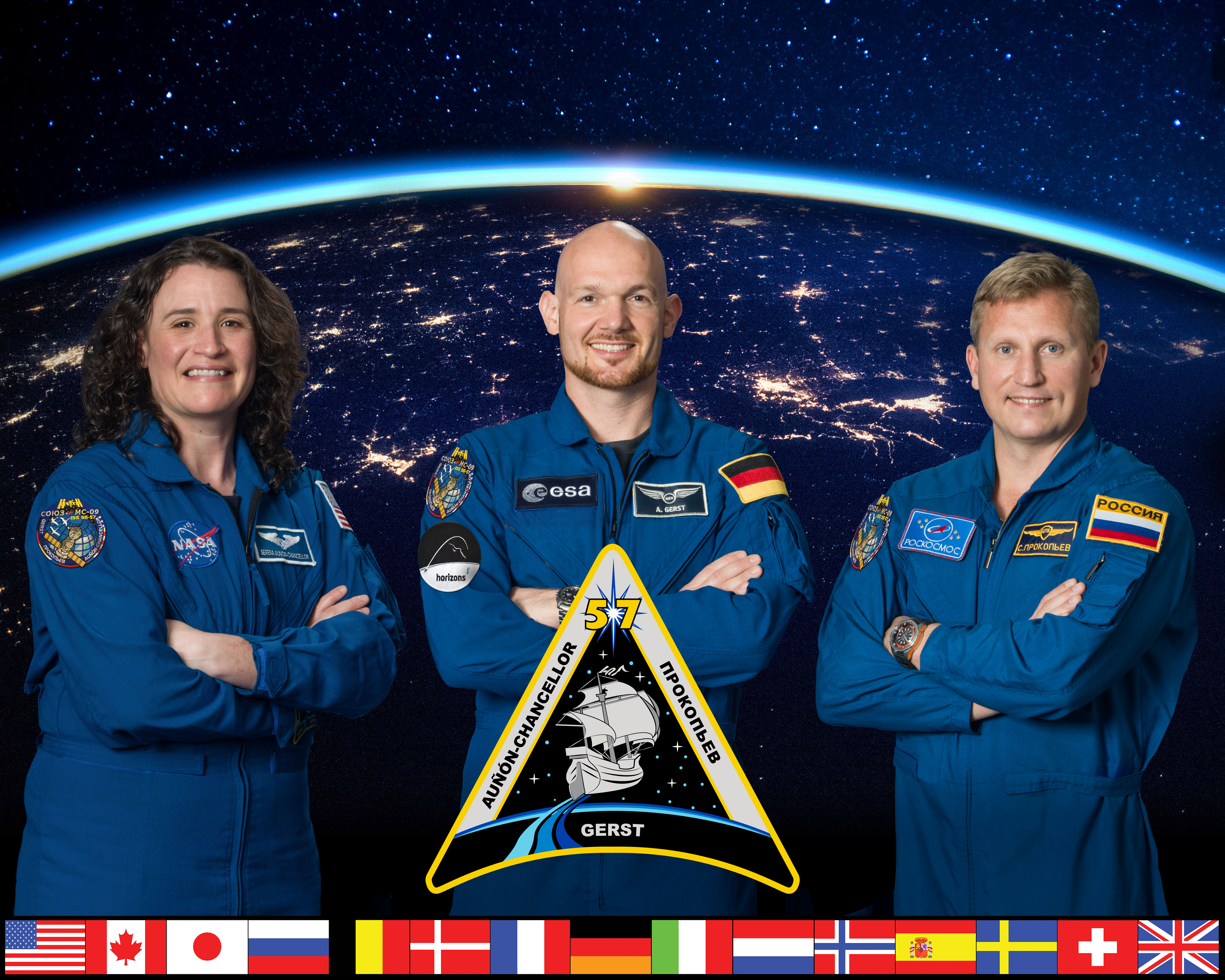 Official crew portrait of Expedition 57 crew members (from left) Serena Auñón-Chancellor of NASA, Alexander Gerst of ESA (European Space Agency) and Sergey Prokopyev of Roscosmos.